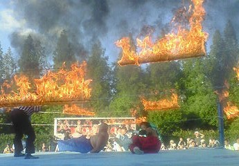 Abdullah Kobayashi(left) vs. Yuko Miyamoto(right) - Fire Death Match - Big Japan Pro Wrestling - August 12, 2007 Information on Cagematch